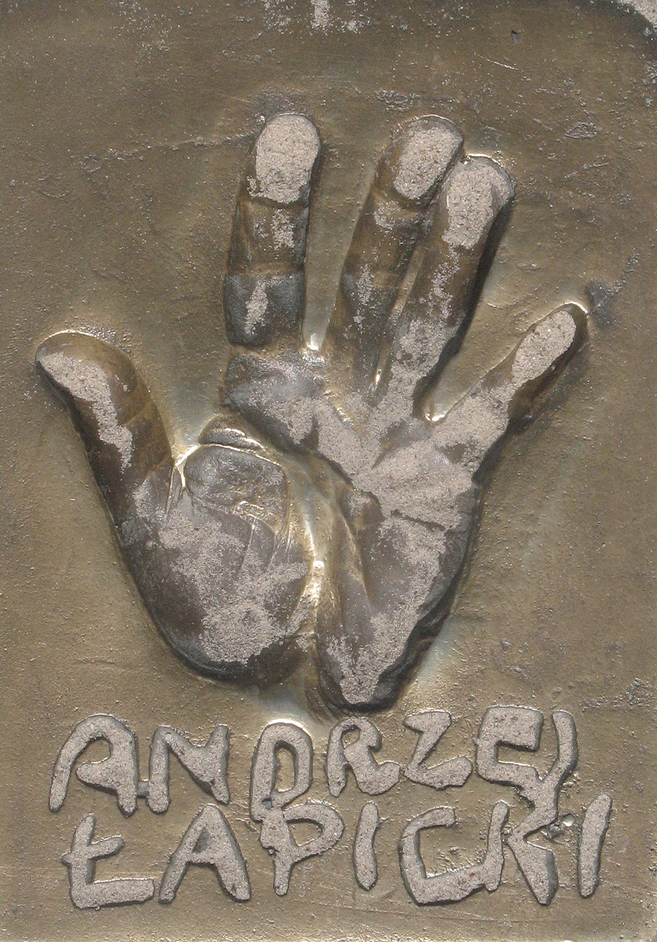 Andrzej Łapicki - handprint and signature in Międzyzdroje.